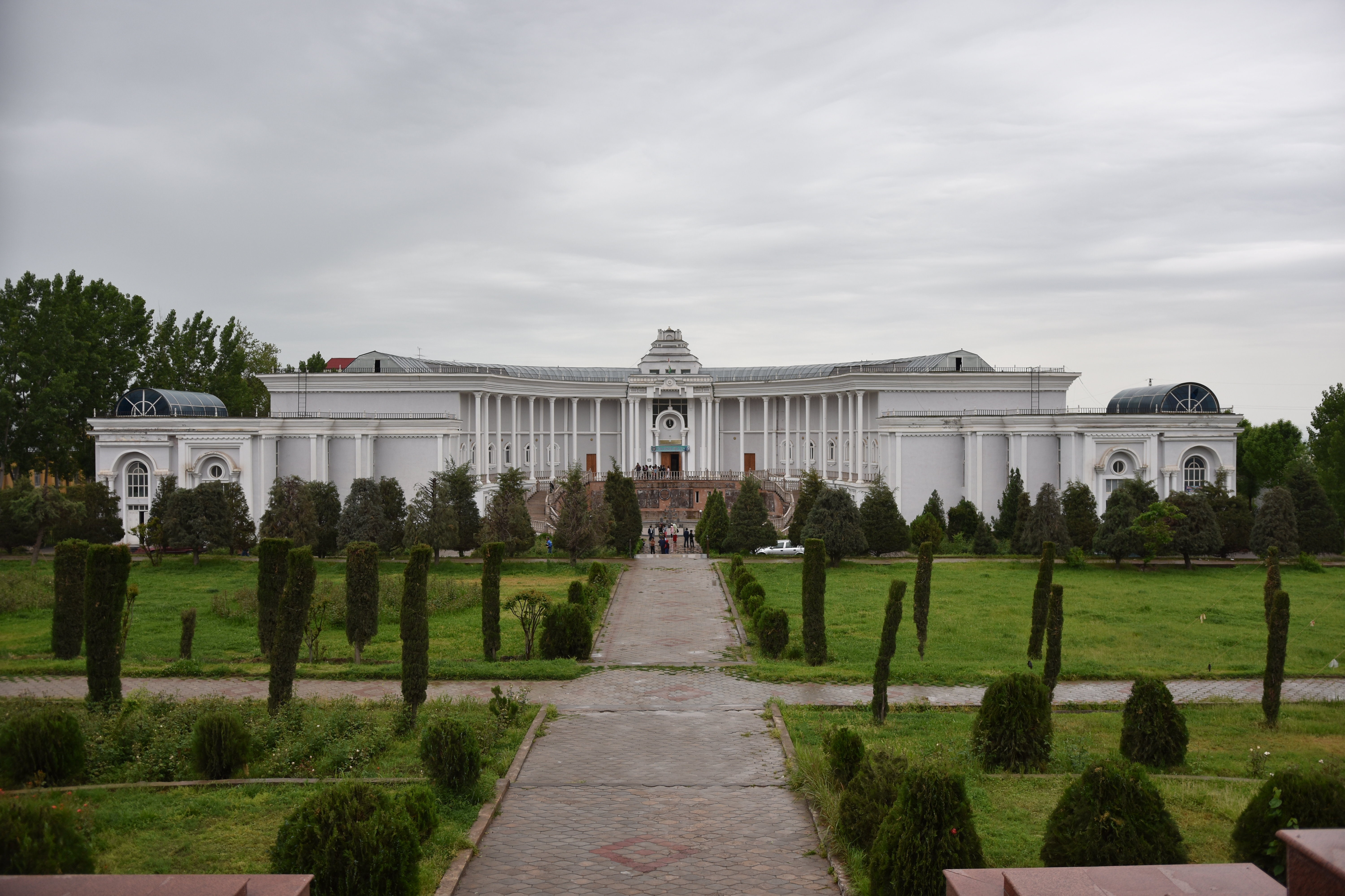 Kulob Republican Local Lore Museum Complex from outside